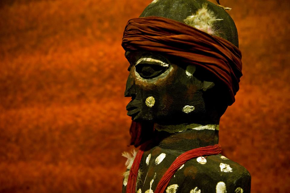 Deity Sakpata, representing the god of the Earth in the Vaudoun' pantheon, the andogenic religion found in Benin, Togo, Nigeria. This is an image from Benin